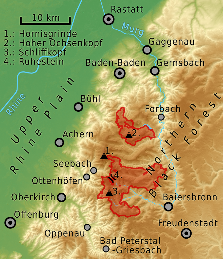 The north-western Black Forest with the Black Forest National Park (Nationalpark Schwarzwald), Germany. Map based on NASA SRTM-3 data.